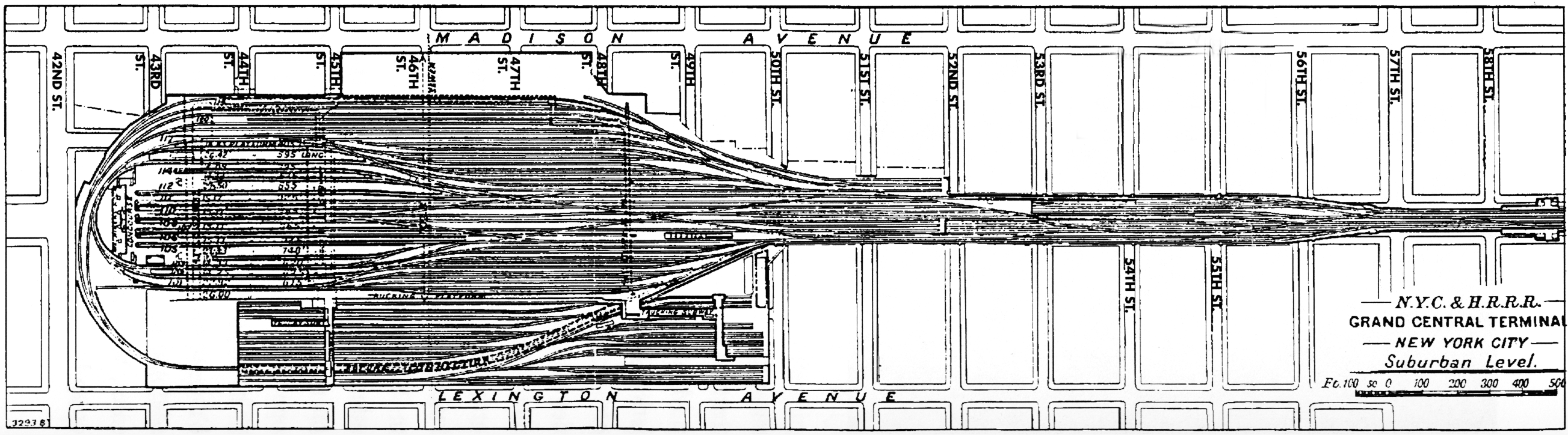 William J. Wilgus's Grand Central Terminal (New York City) lower (suburban) level track plans.